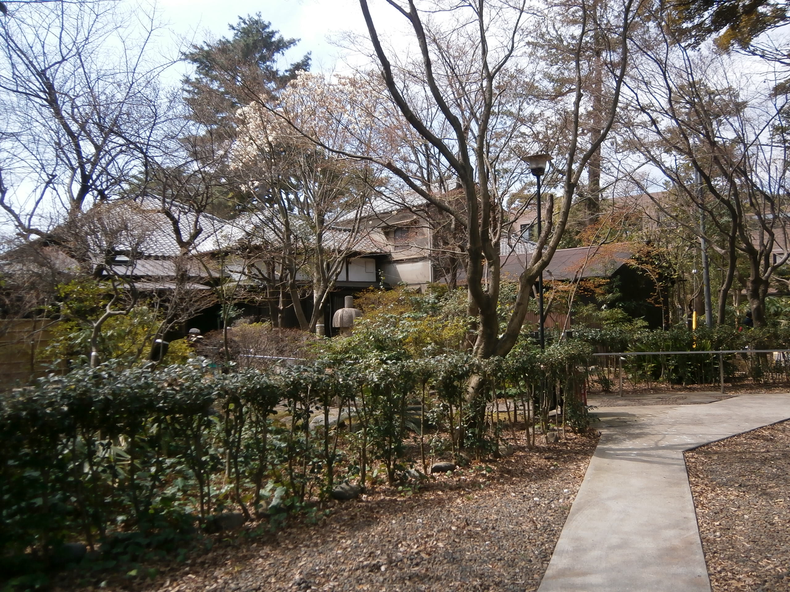 Main entrance of tekigaisou